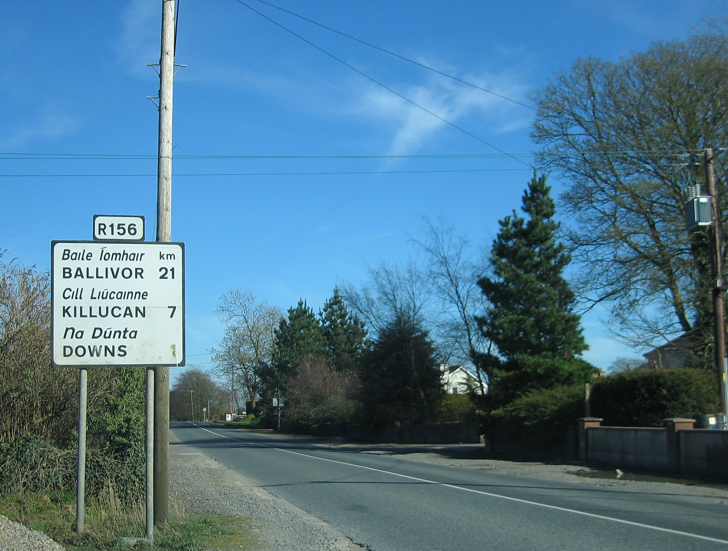 The R156 (looking east) at the Downs just east of Mullingar, County Westmeath